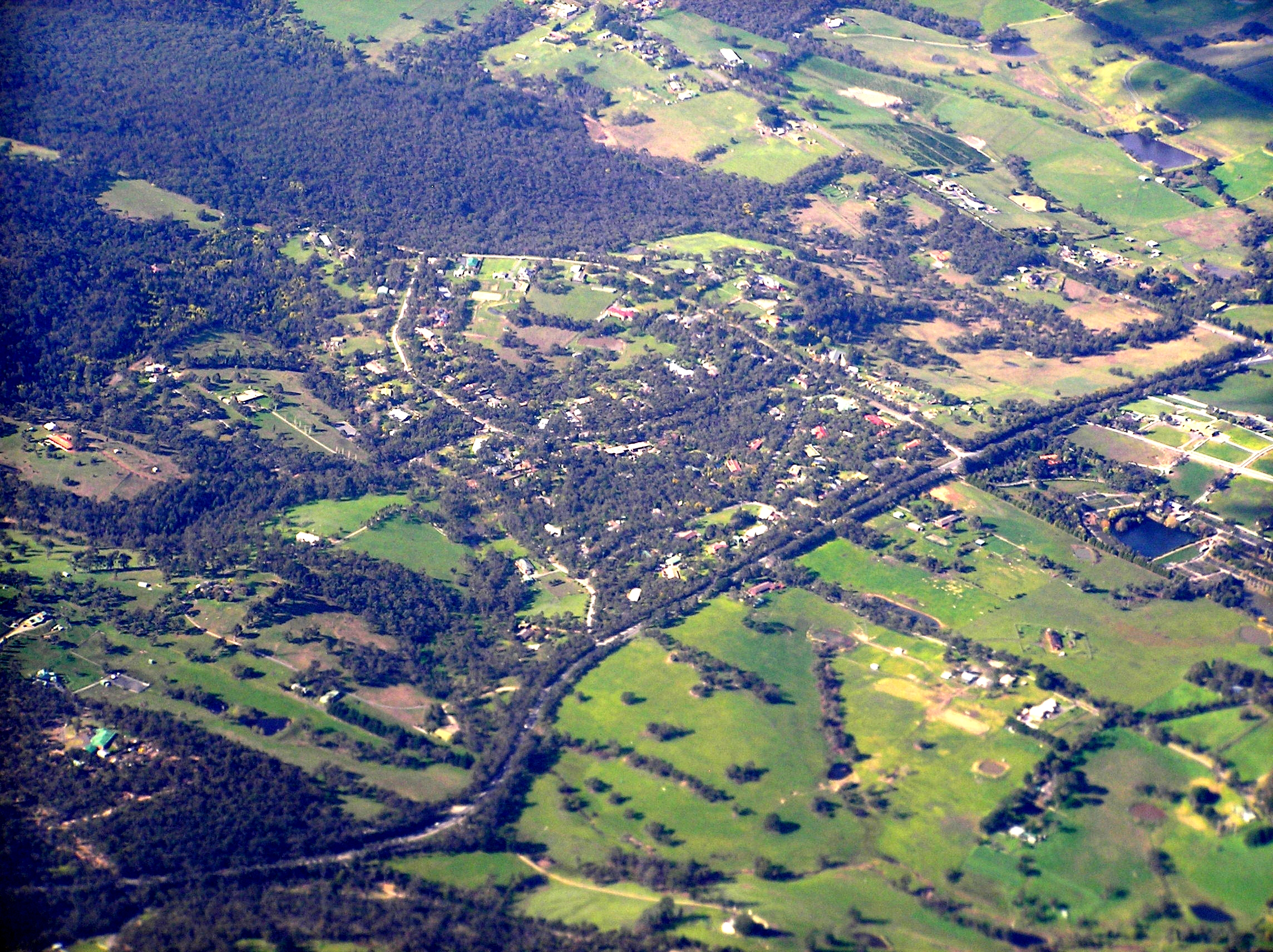 Belgrave South Victoria aerial view from west